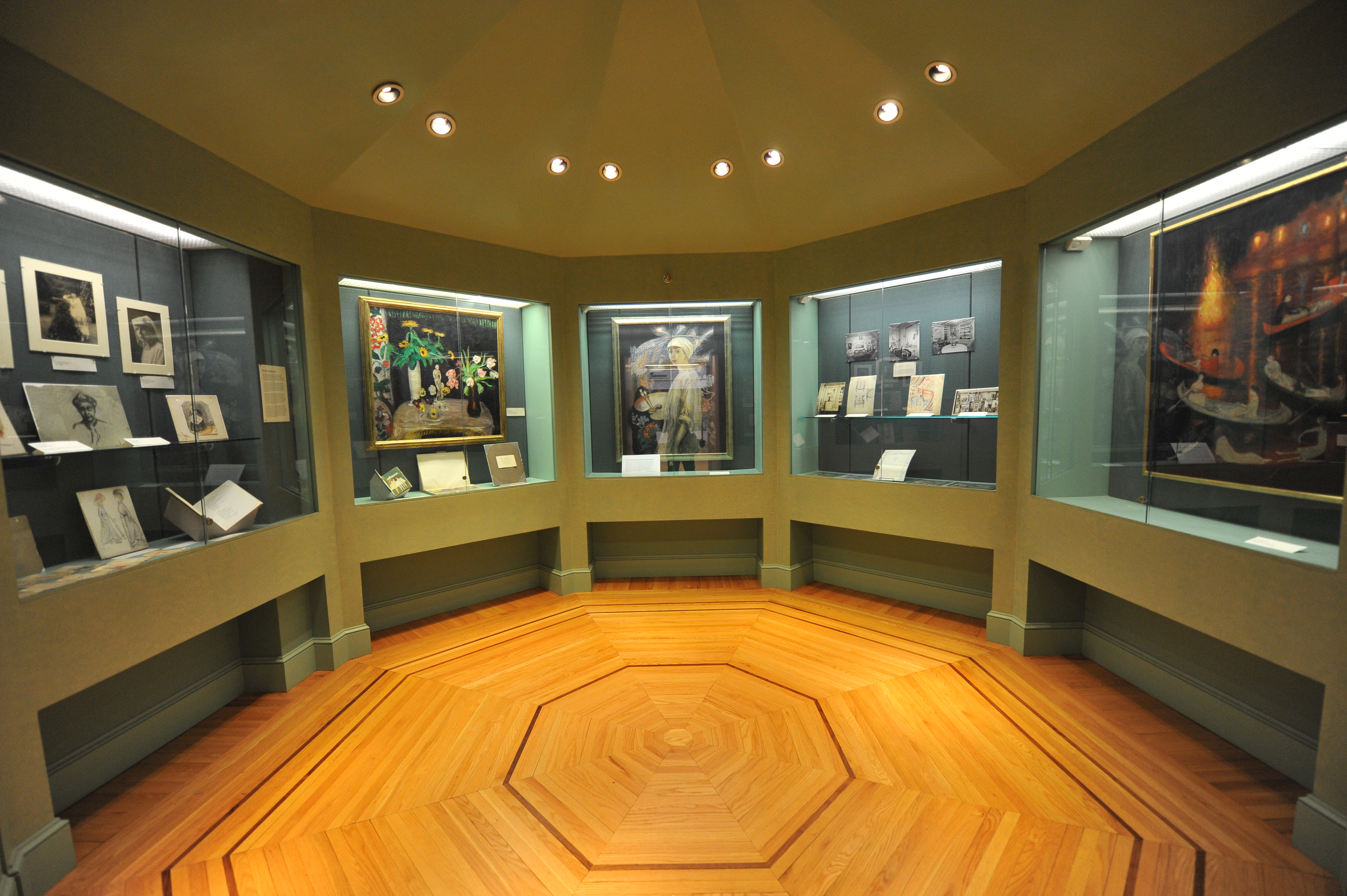 The Chang Octagon Room in the Rare Book & Manuscript Library at Butler Library.